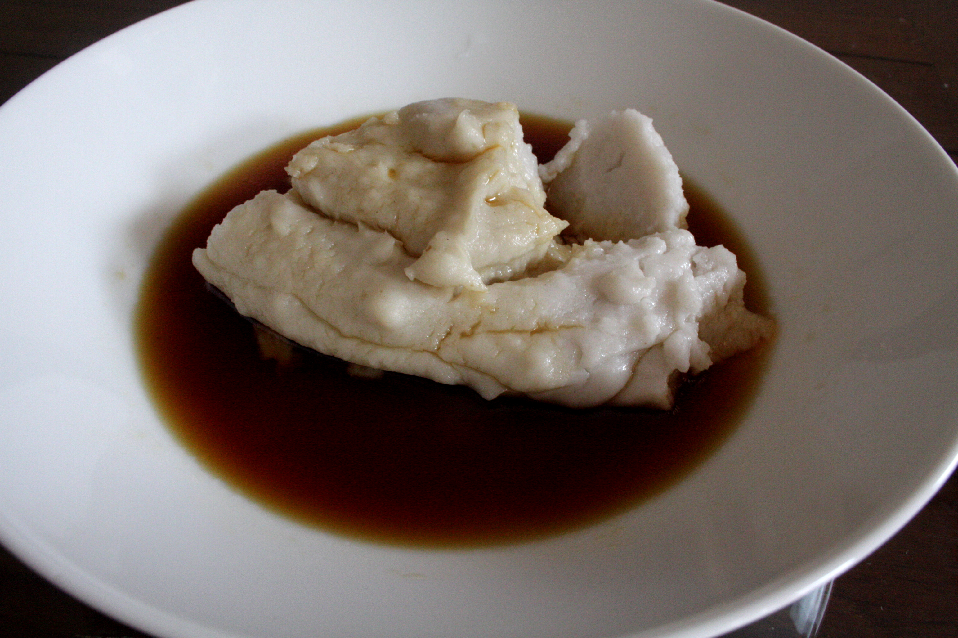 A Sumsum Porridge (in